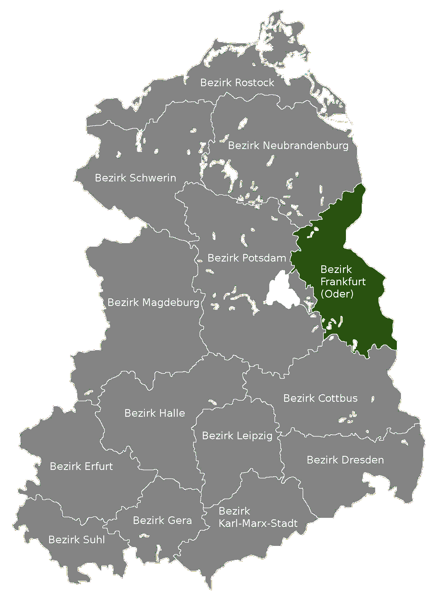 Map based on German Wikipedia